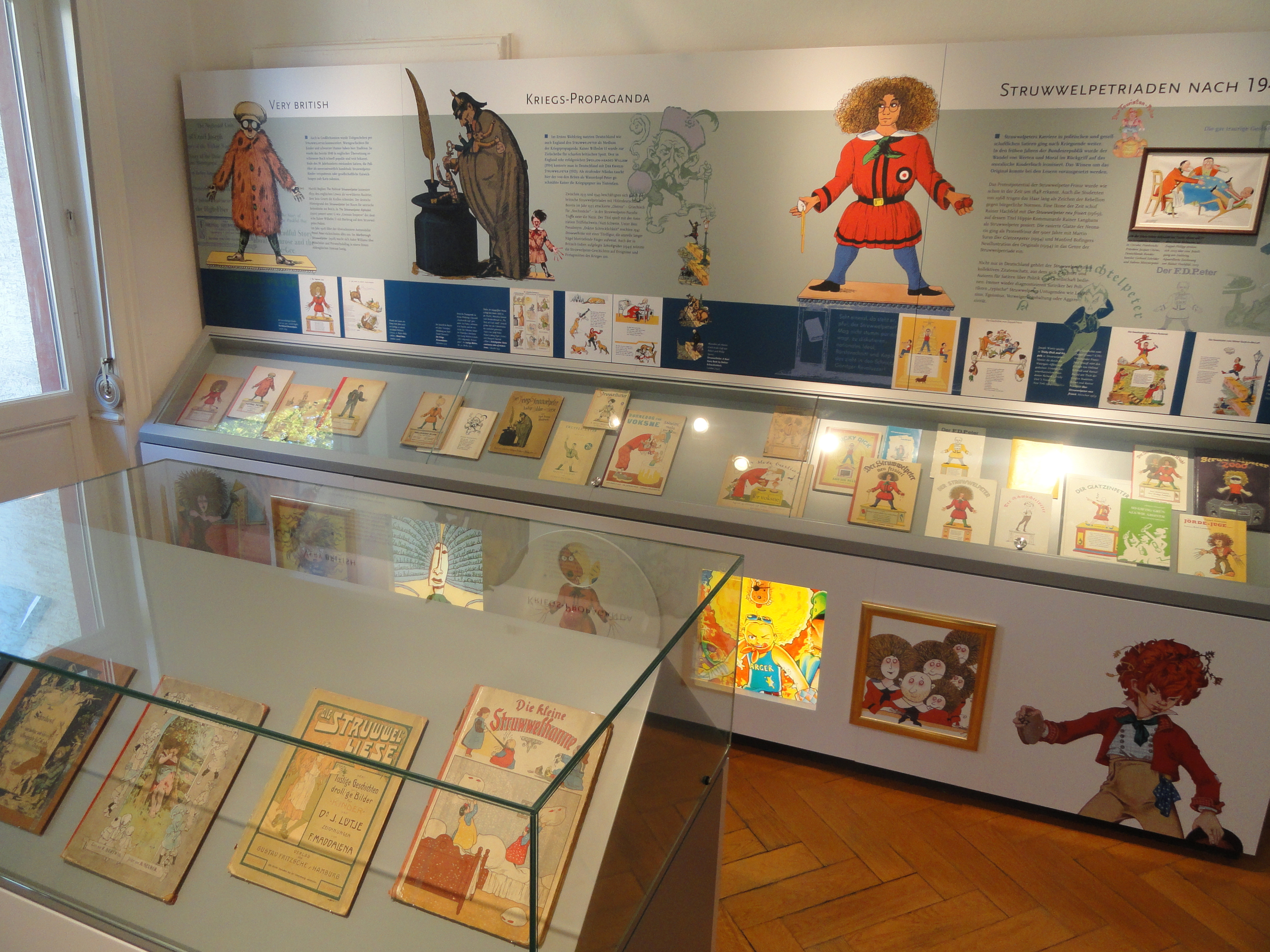 Struwwelpeter Museum, Schubertstr. 20 60325 Frankfurt am Main, Germany. (I asked). Artwork is old enough so that it is in the public domain. I took this photograph and release it into the public domain.